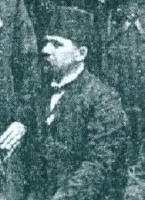 Edhem Mulabdić among the first Gajret's Choral Society from 1905